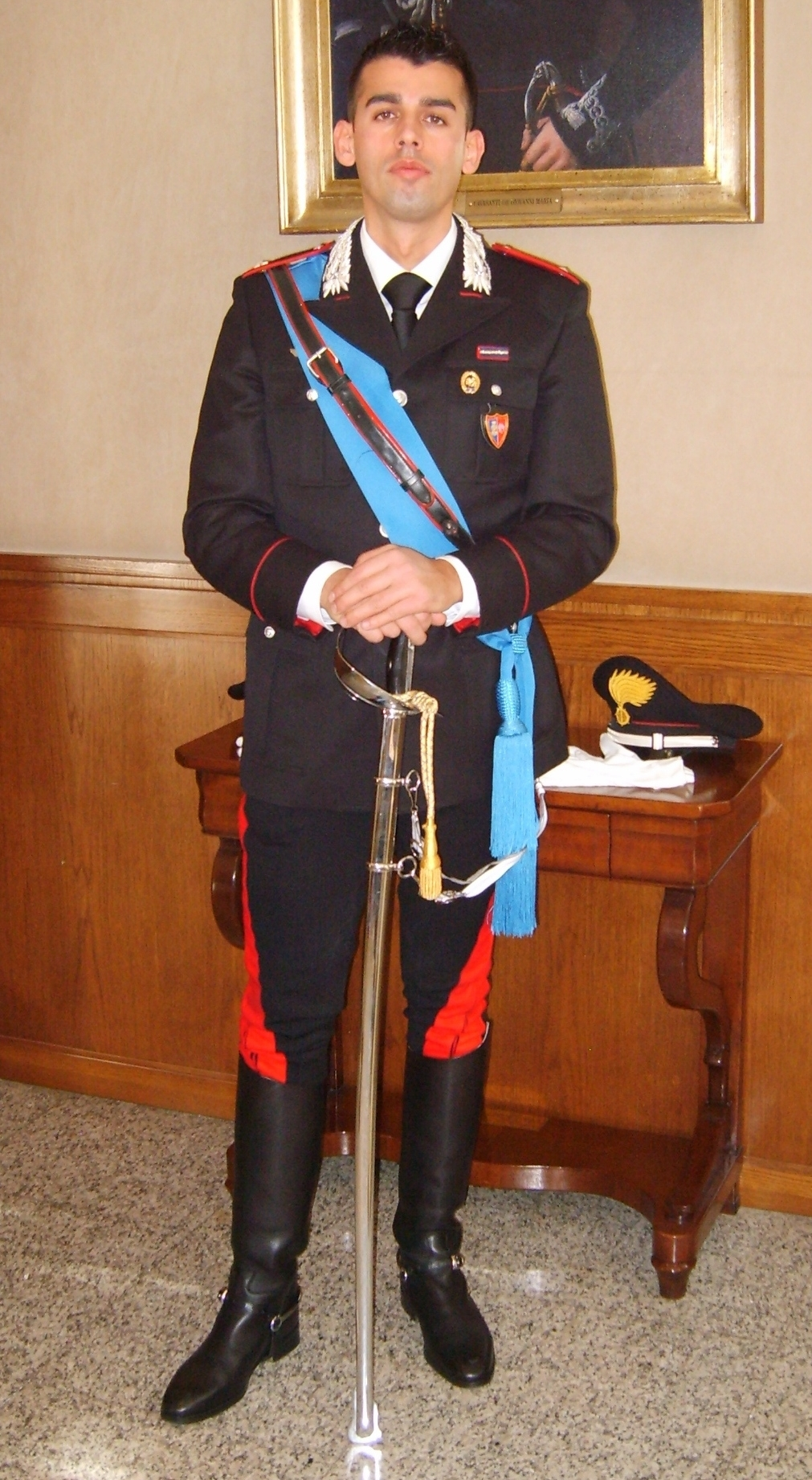 Photograph of the italian Tenent Marco Pittoni, Gold Medal of Military Valor.